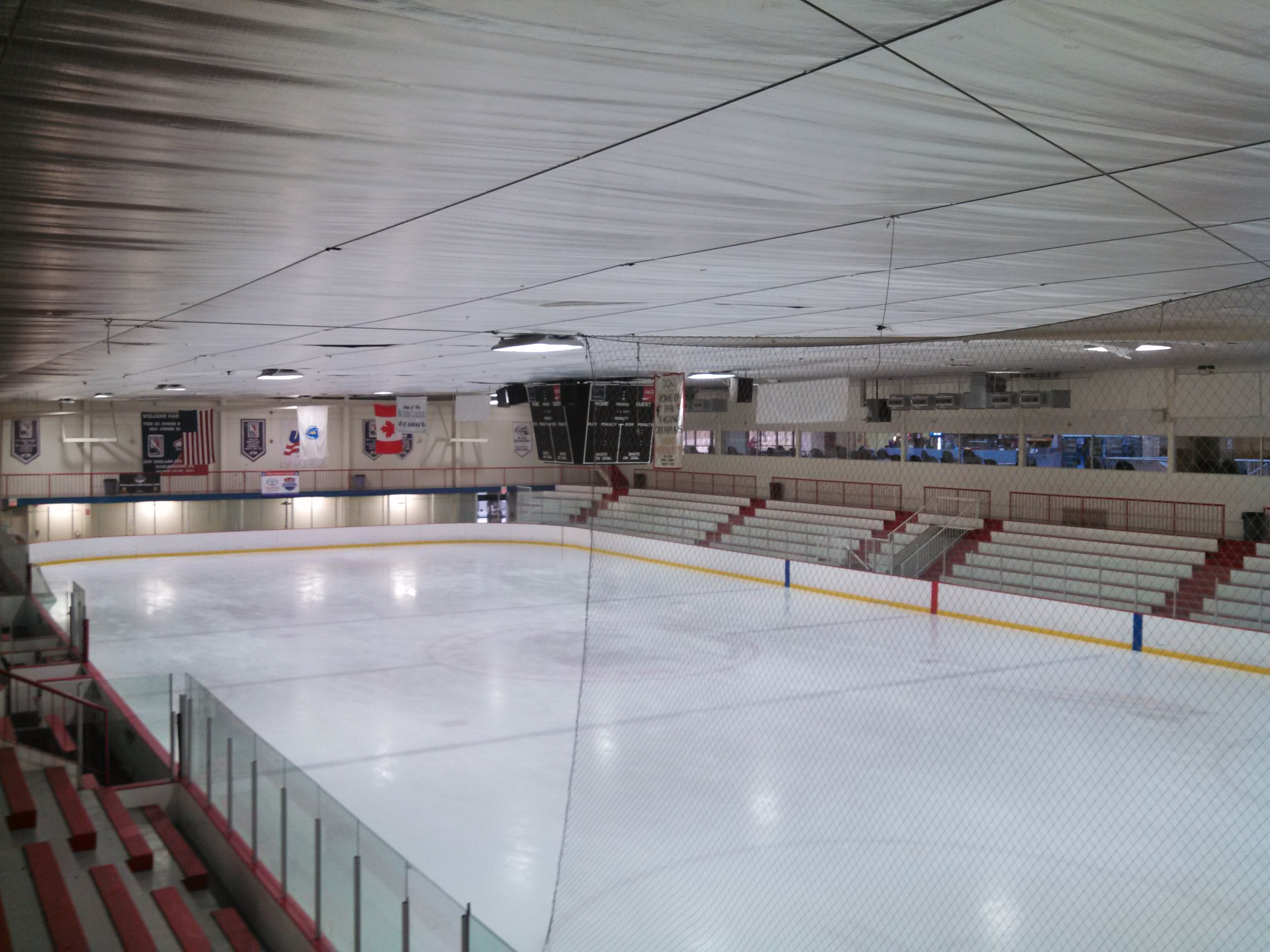 Rink 1, New England Sports Center, Marlborough Massachusetts - 2014